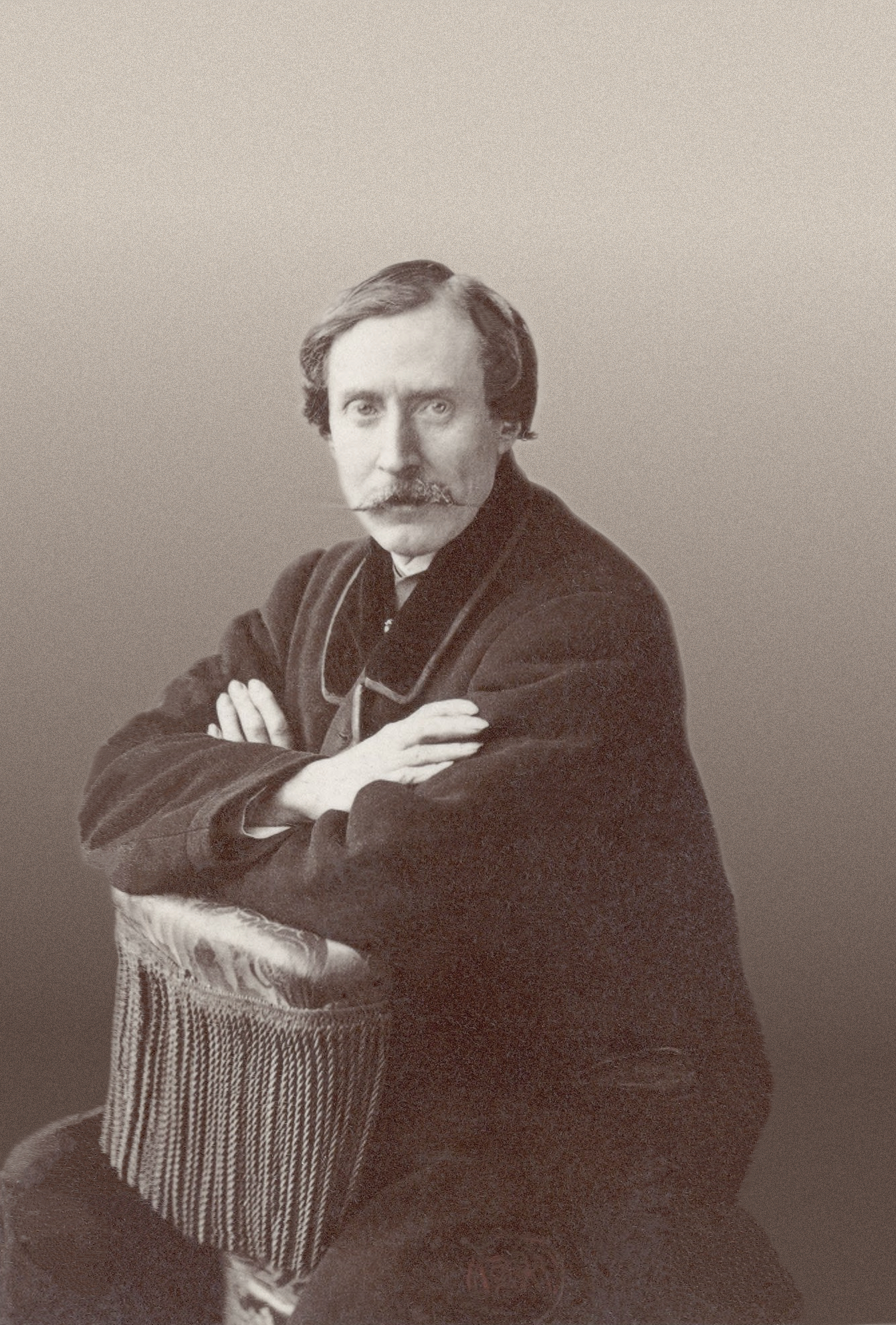 Charles Narrey (1825 - 1895), french writer and playwright.